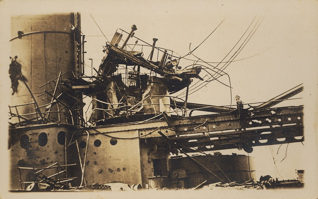 Photo from a postcard showing the destruction of the USS Texas battleship, which took place in Chesapeake Bay in 1911.